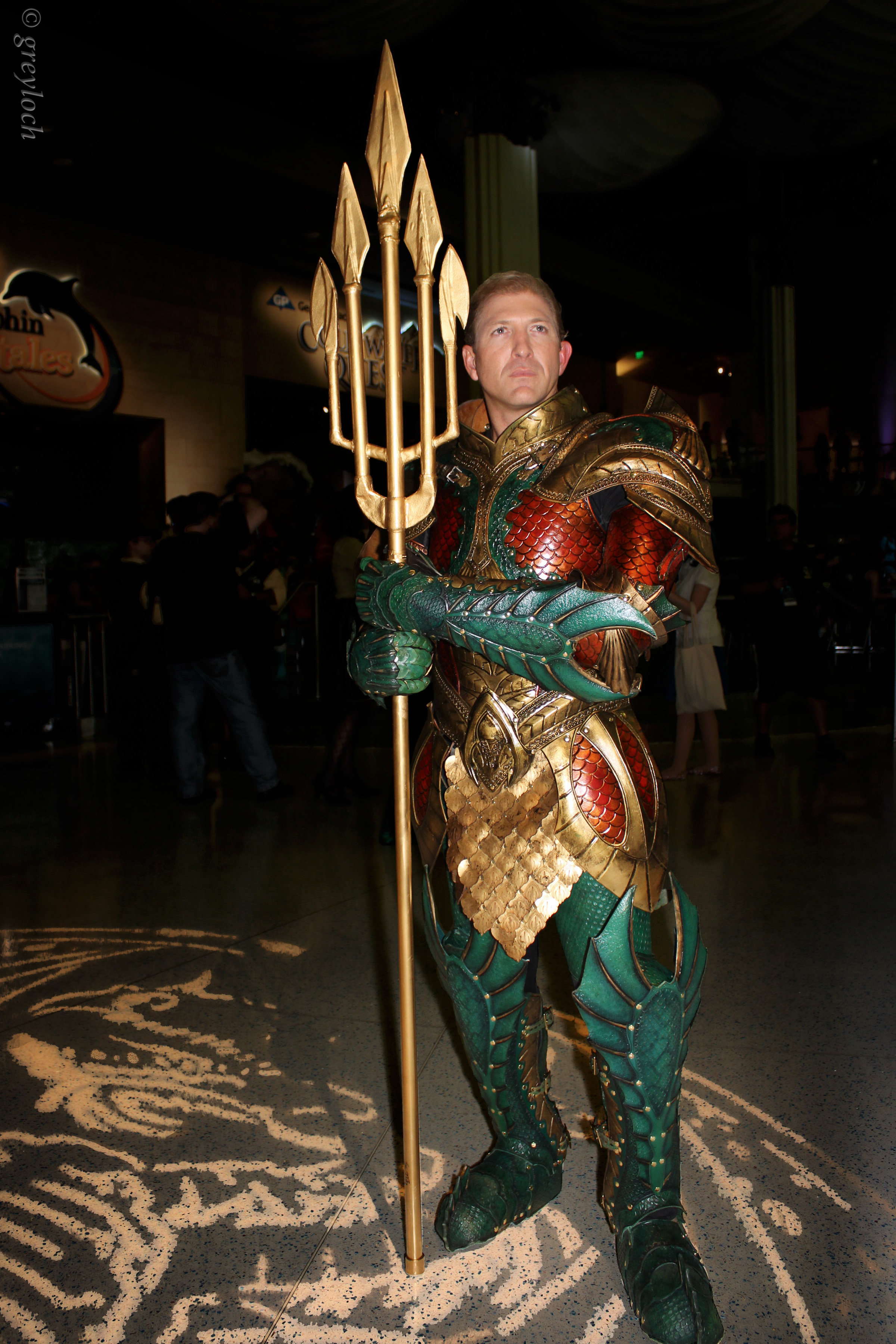 This armor is stunning! It was made by Prince Armory. I have two bracers made by the same guy and his work is top notch. And no, you really don't want to know how much this suit of armor cost. Here's a hint: lots and lots of money. I used two Topaz Adjust filters (Dark - Night and Dark - Ghostly), slightly faded, and masked out Aquaman, his trident, the Dragon*Con gobo (lighted stencil) on the floor, and a bit of the area around Aquaman. For the mask, I used one of the PS water brushes (this one looked like a water current) similar to what I did with the "Aquarium Drama" and "aquarium cosplayer" photos. Comments, please?